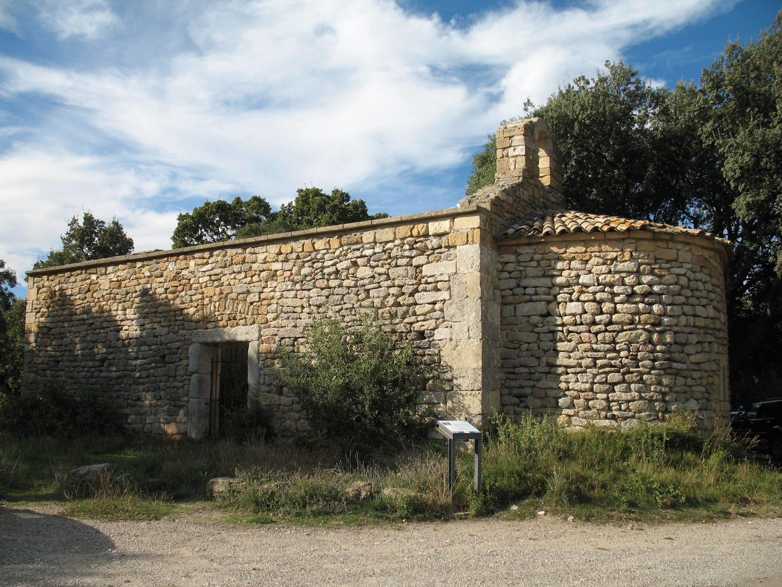 France - Provence - Bouches-du-Rhône - Chapel Saint-Jean in Alleins